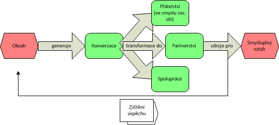 Social CRM scheme